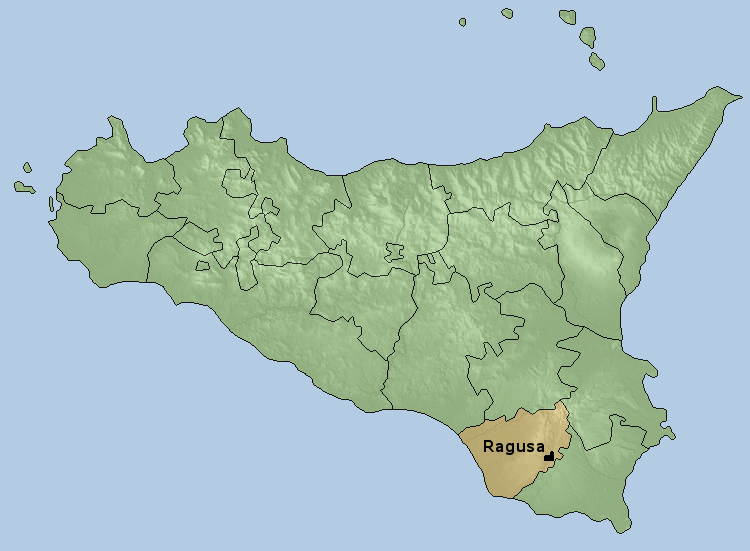 Map of the diocese of Ragusa (^^: Cathedral of a metropolitan diocese, –^: Cathedral of a suffragan diocese, ^–: Co-cathedral)